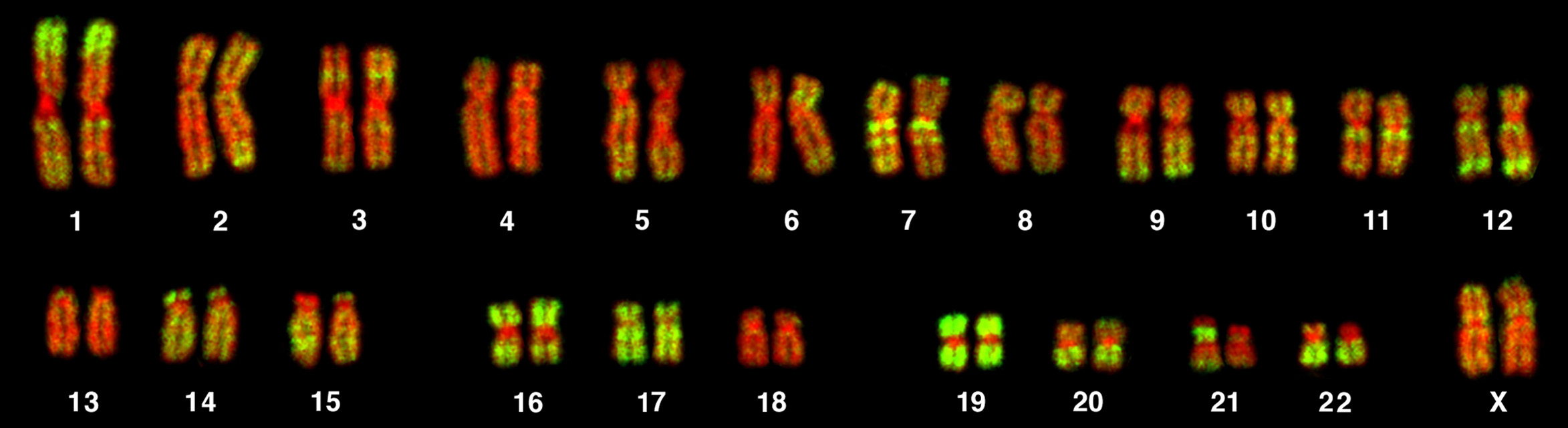 Human metaphase chromosomes were subjected to fluorescence in situ hybridization with a probe to the Alu Sequence (green signals)and counterstained for DNA (red). Original figure legend: Karyotype from a female human lymphocyte (46, XX). Chromosomes were hybridized with a probe for Alu sequences (green) and counterstained with TOPRO-3 (red). Alu sequences were used as a marker for chromosomes and chromosome bands rich in genes.